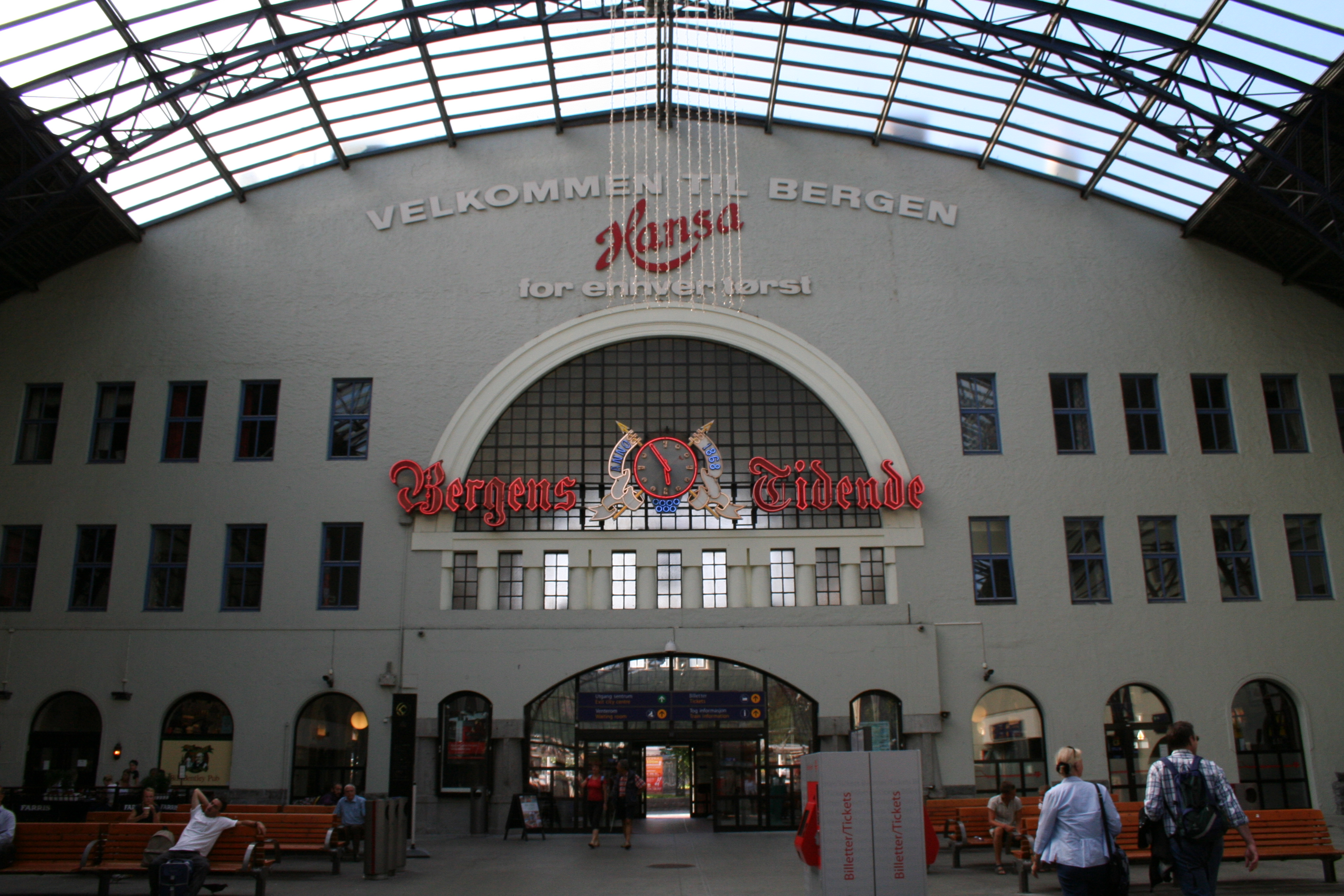 A view of the interior of the Bergen Railway Station in Norway, as seen from one of the platforms.